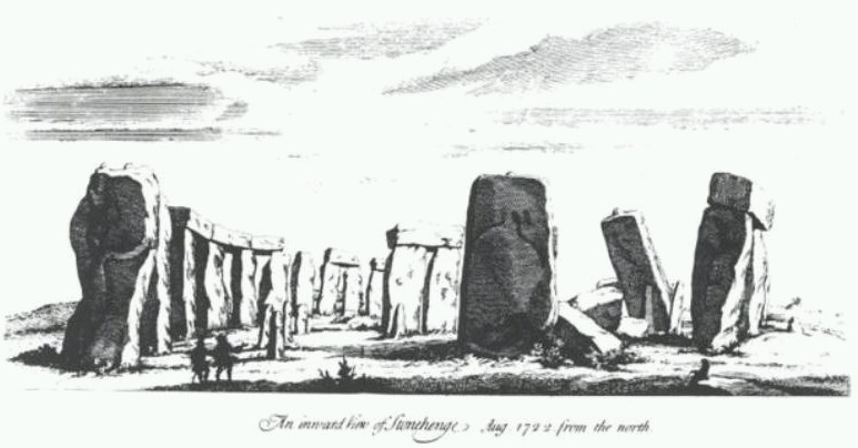 Drawing of Stonehenge take from William Stukeley's book